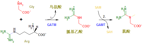 own work